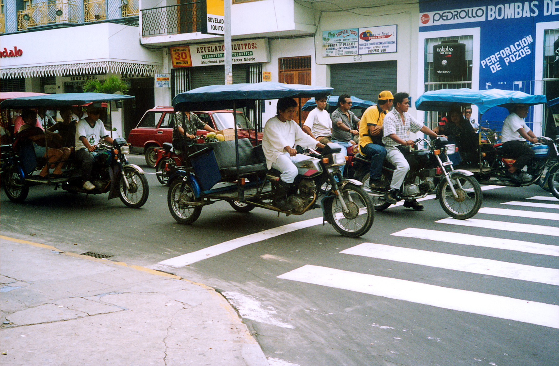 Iquitos, Peru. "Mosquitos" waiting at redlight.